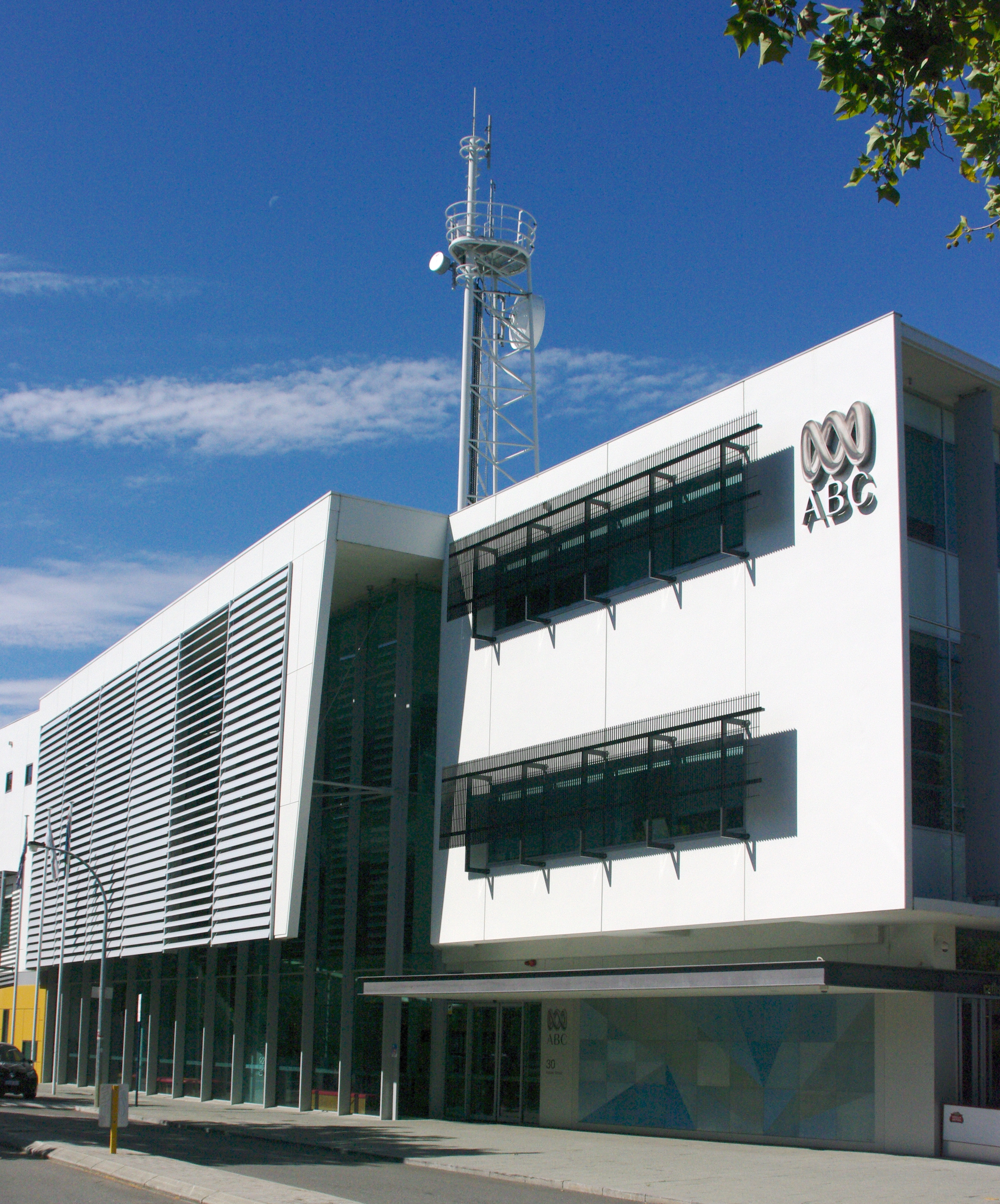 ABC Perth studios, cnr fielder and royal steets East Perth. home of w:720 ABC Perth and ABW (TV station). The studios were opened in 2005, replaced the Adelaide tce building.